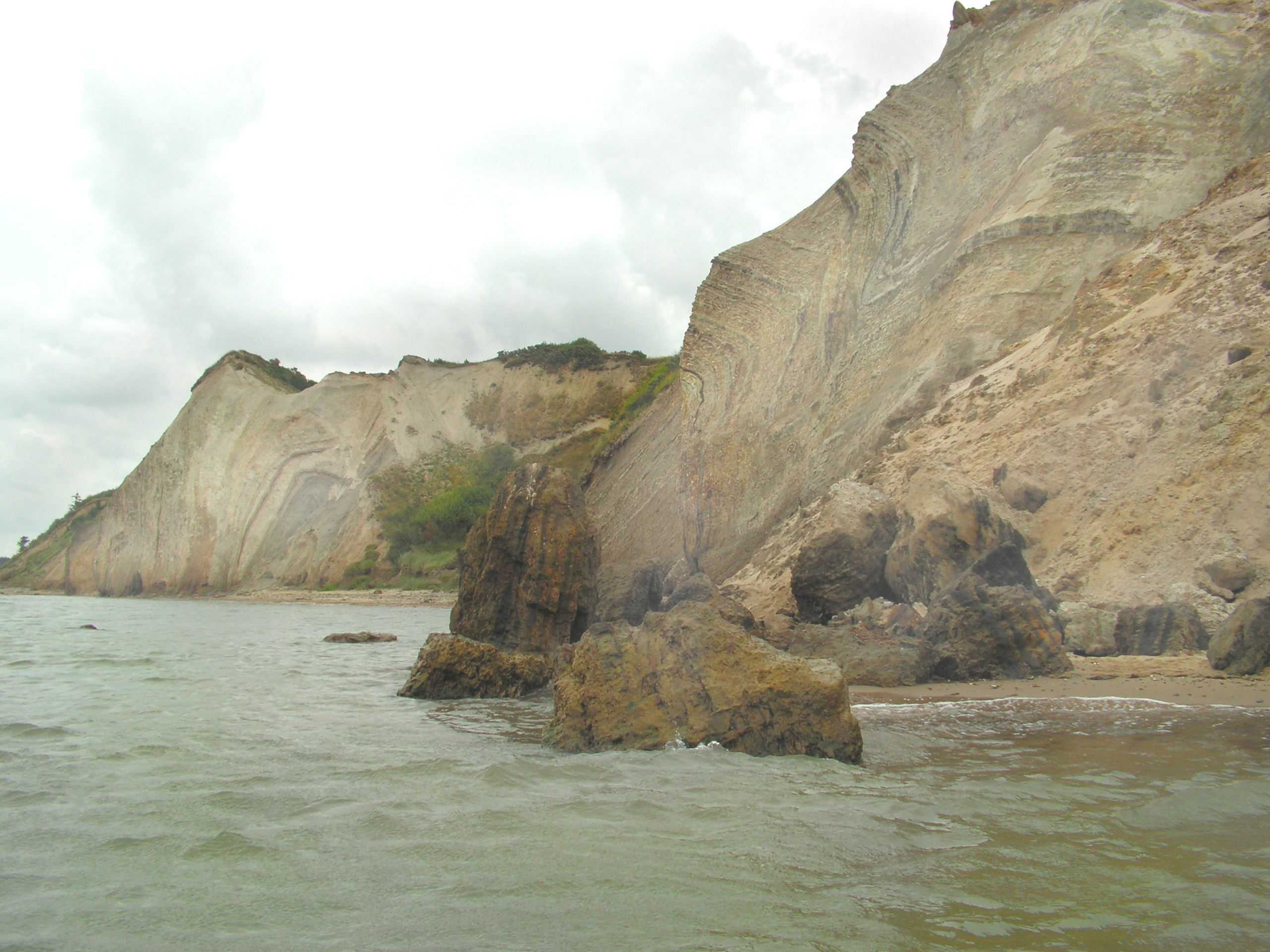 view to the coastline of Fur, Denmark. The twisting of geological layers is clearly visible.